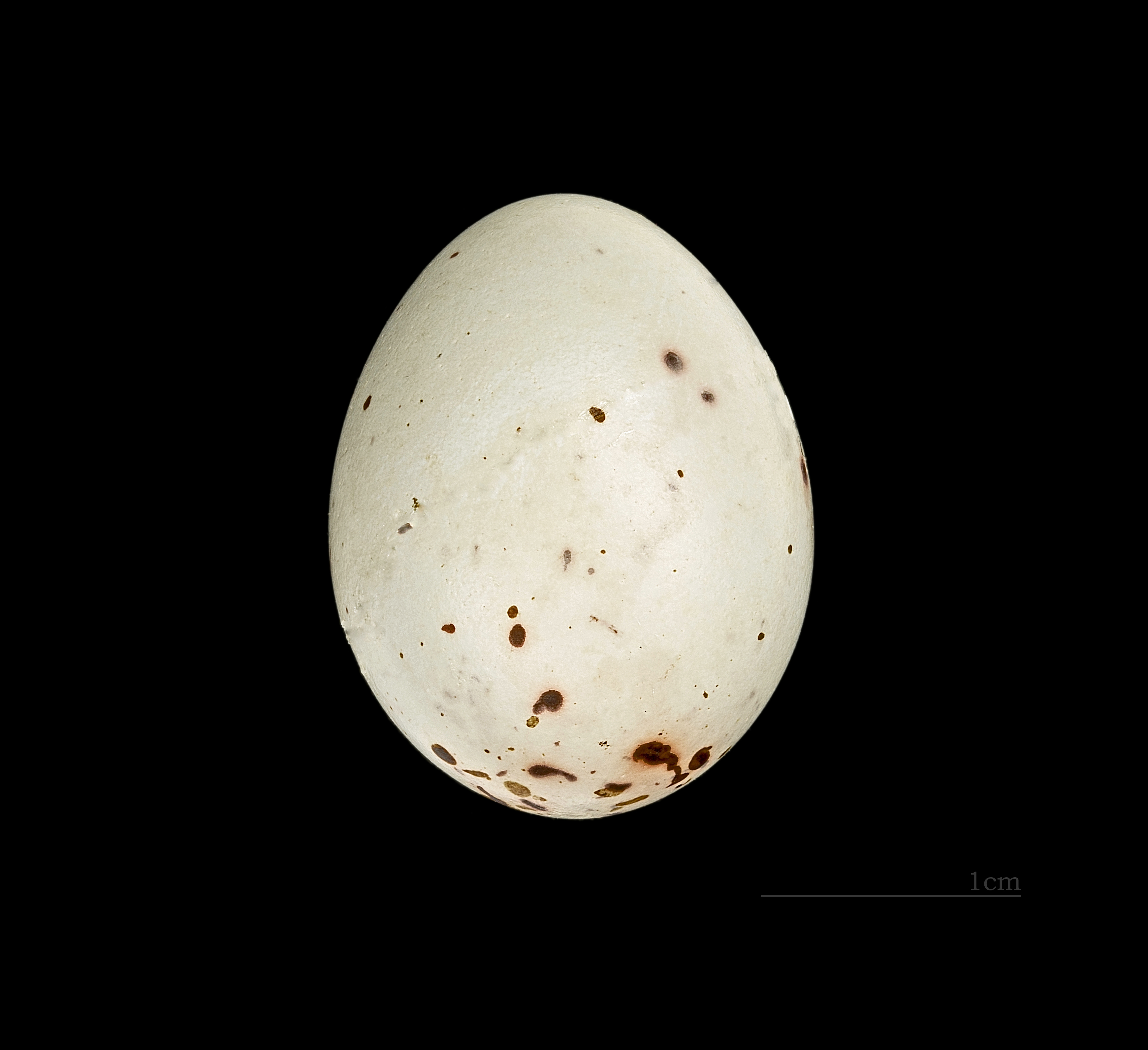 Egg of Blue Chaffinch. Collection of René de Naurois / Jacques Perrin de Brichambaut.